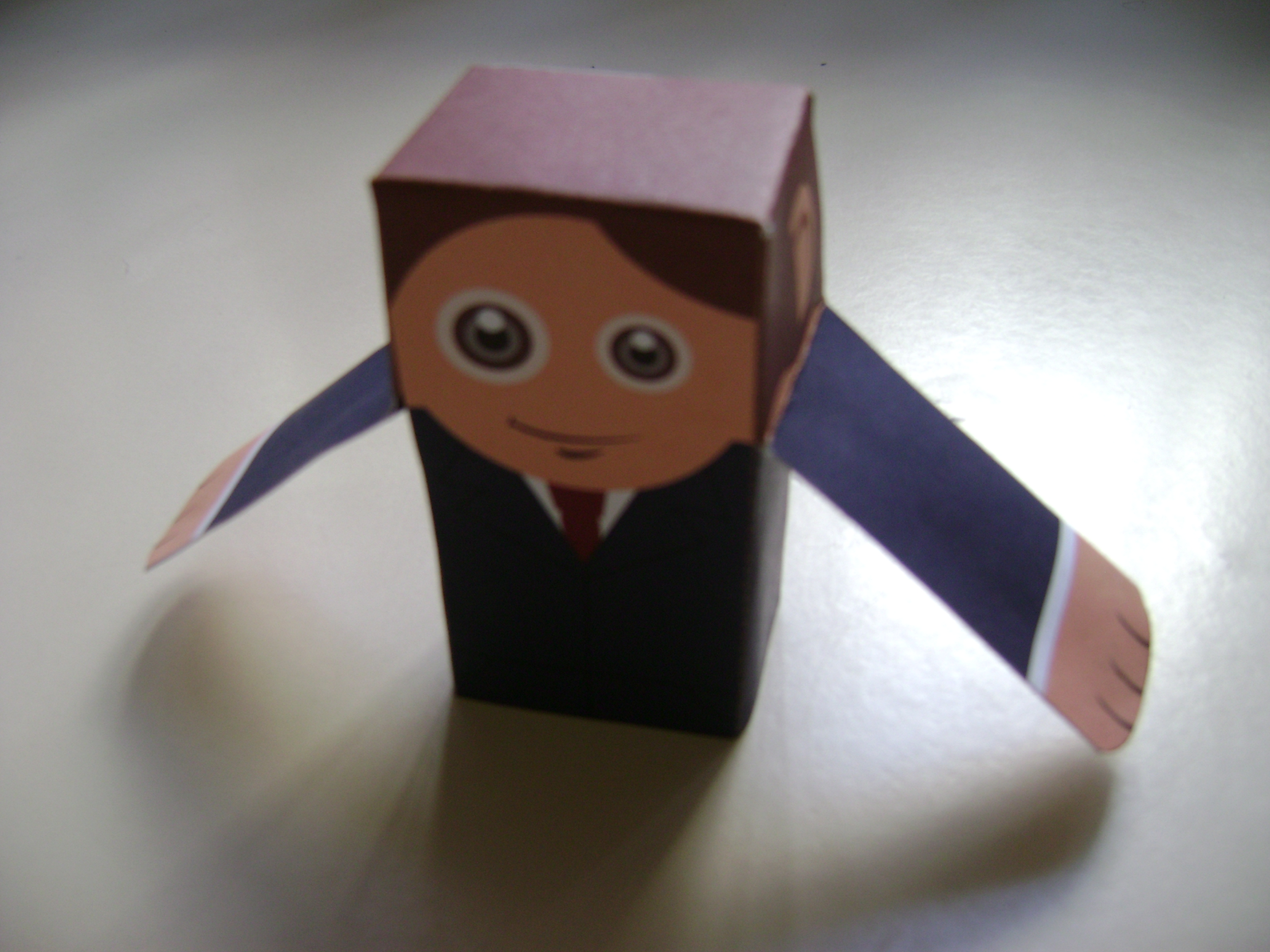 Paper folding, like one worker.